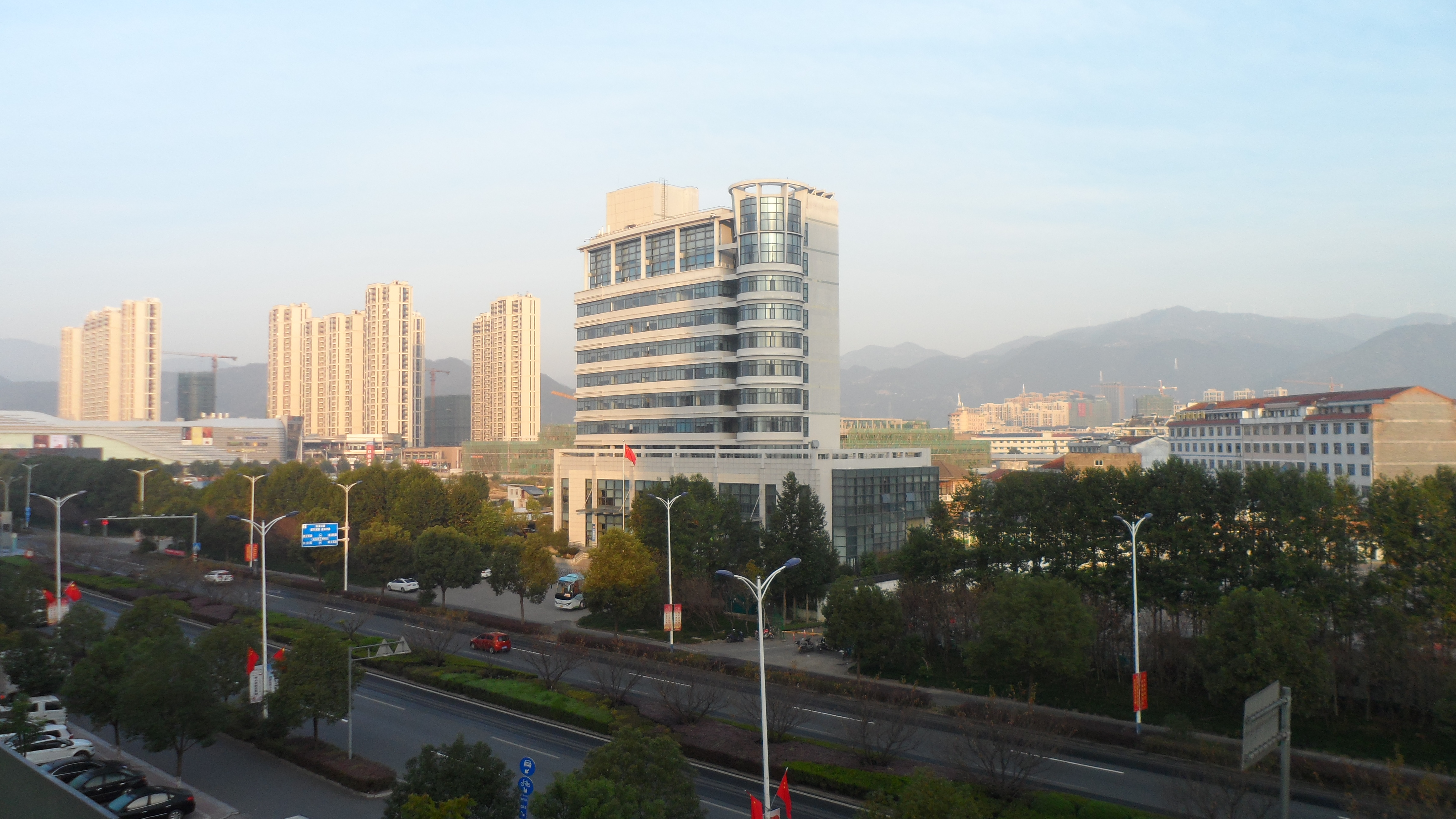 Xianju County, Zhejiang